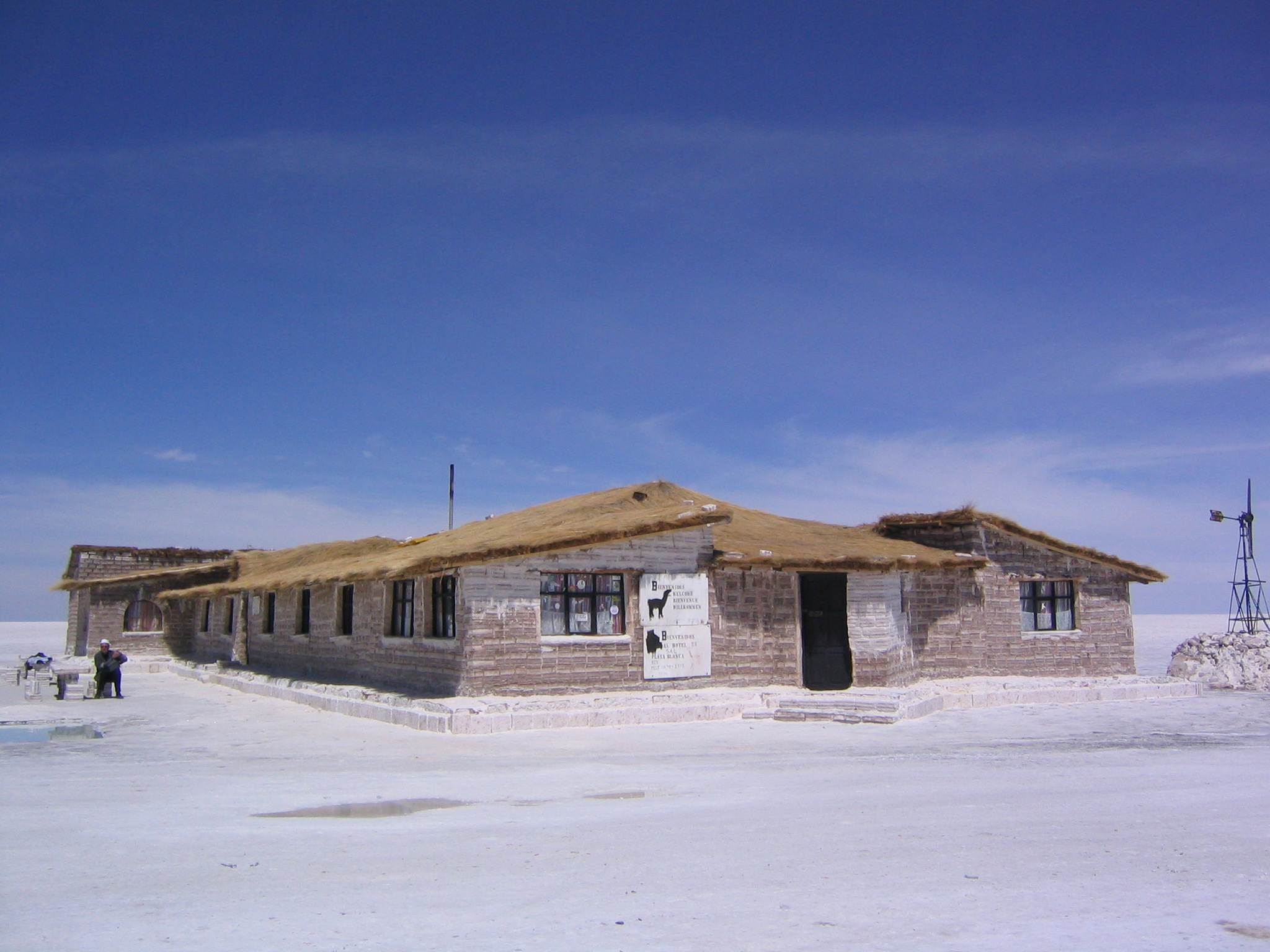 The Salar de Uynui hotel